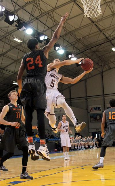 Kyle Husslein playing for the University of Redlands.